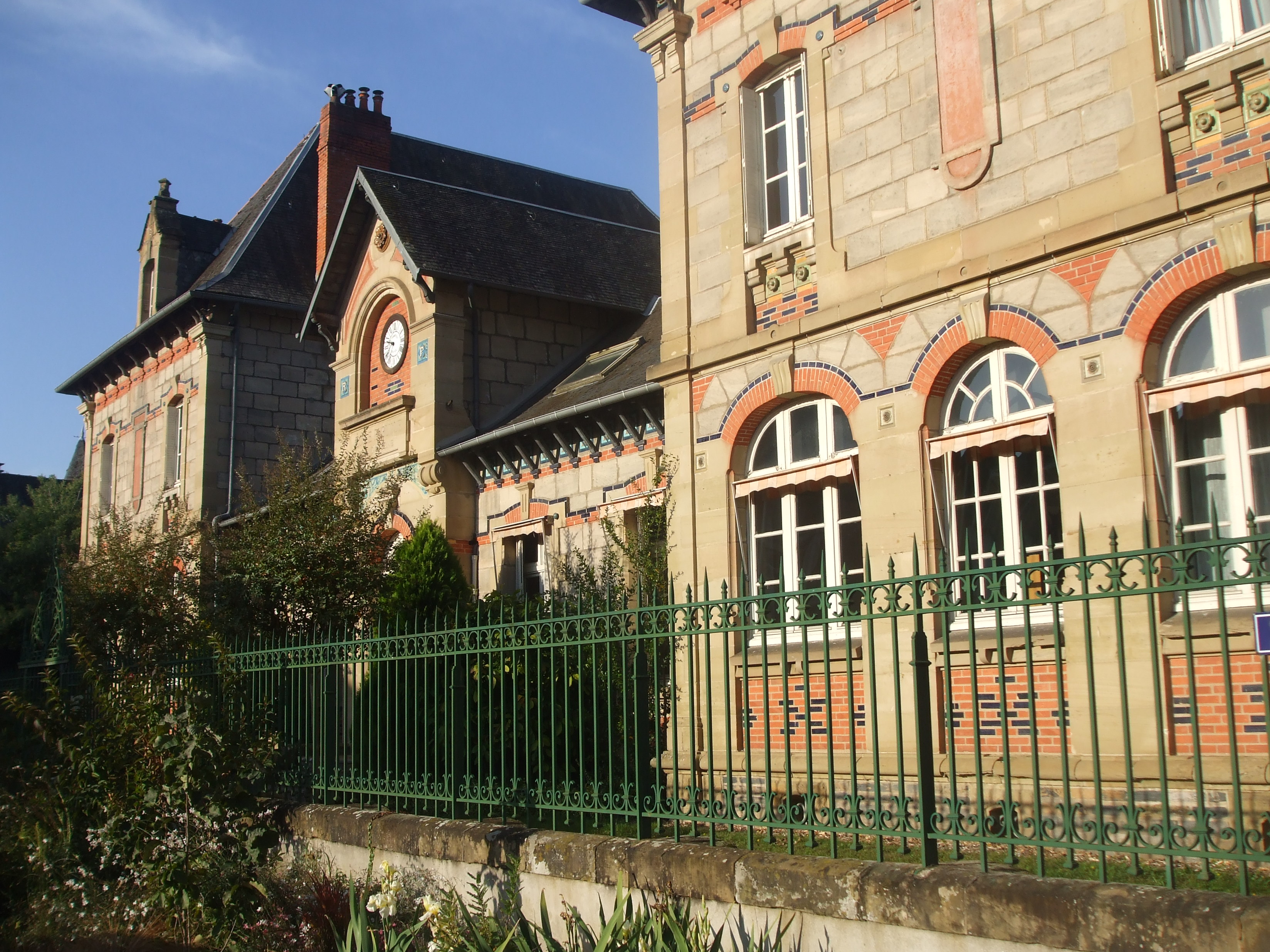 Former school Firmin Marbeau, Brive-la-Gaillarde, Corrèze, Limousin, France